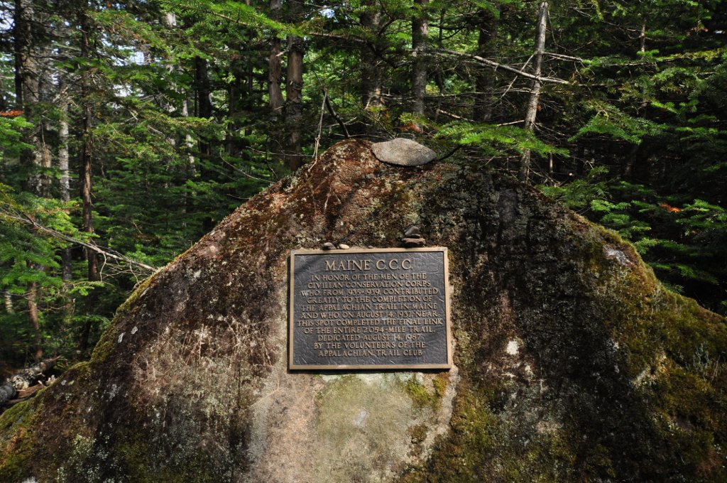 This marker stands on the Appalachian Trail between Mounts Spaulding and Sugarloaf in Maine, in commemoration of the trail's completion by a CCC crew in 1937. It reads "MAINE C.C.C. In honor of the men of the Civilian Conservation Corps who from 1935-1939 contributed greatly to the completion of the Appalachian Trail in Main and who, on August 14, 1937, near this spot completed the final link of the entire 2,054 mile trail. Dedicated August 14, 1987 by the volunteers of the Appalachian Trail Club."